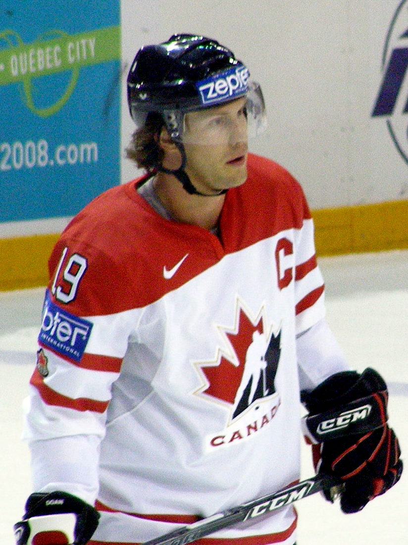 Canadian captain Shane Doan during a game against Latvia at the IIHF World Hockey Championship in Halifax, Nova Scotia, on May 4, 2008.